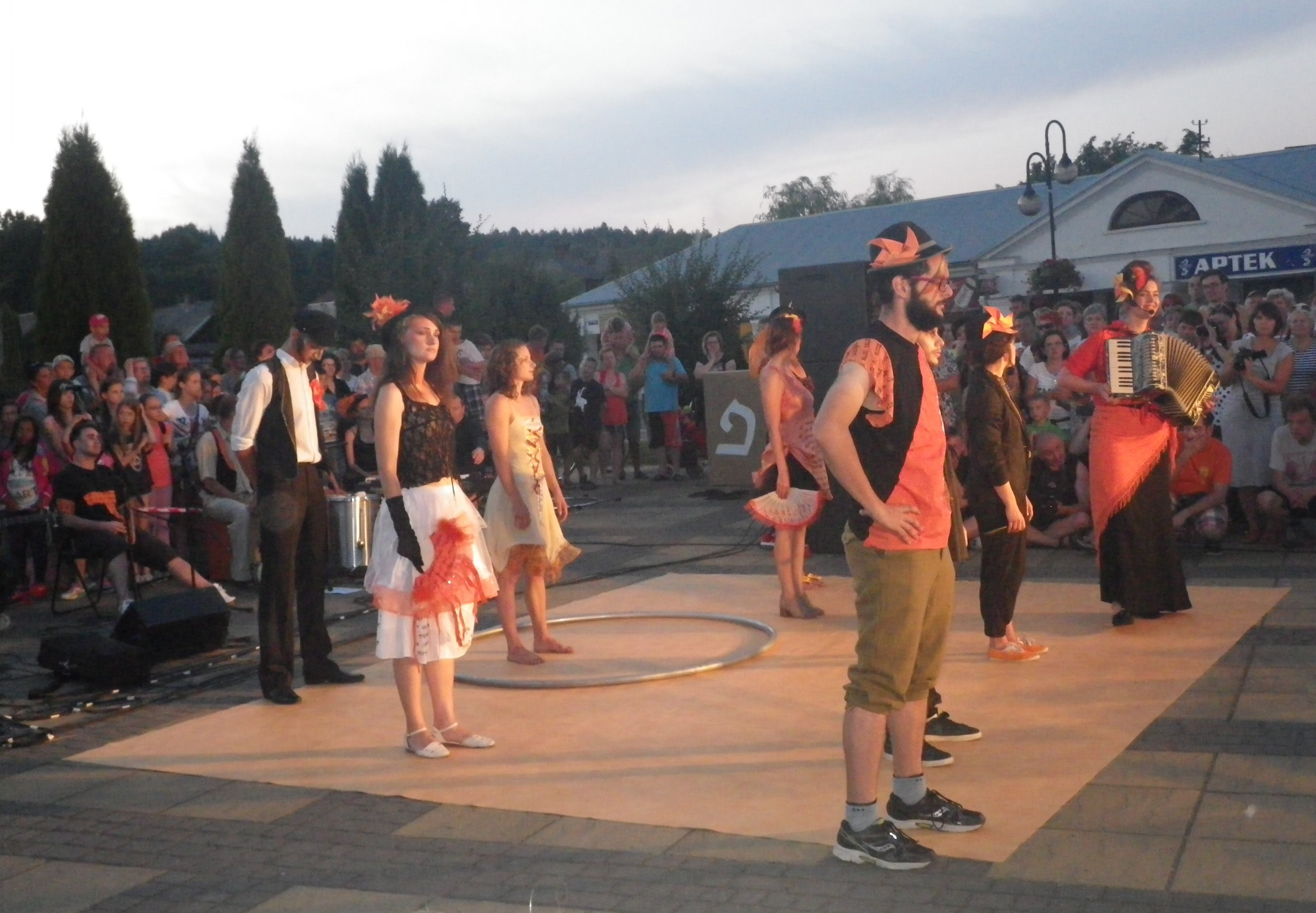 Festival "Following Singer Traces" in Krasnobród, 2015